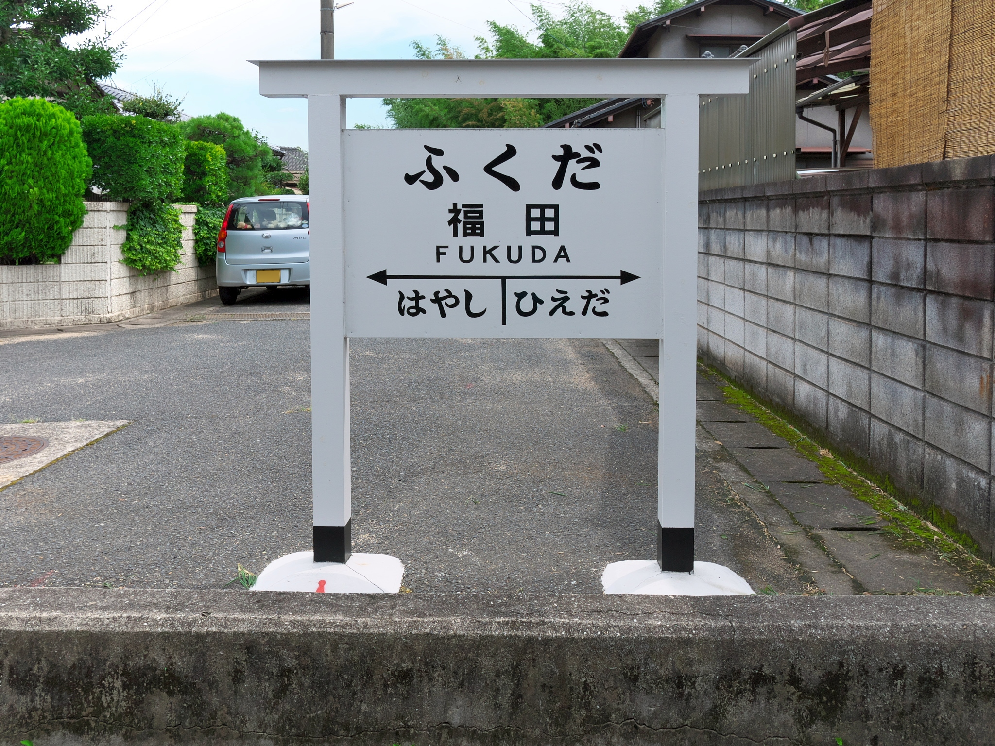 The ruin of Fukuda Station on Shimotsui Dentetsu Line in Fukue, Kurashiki, Okayama prefecture